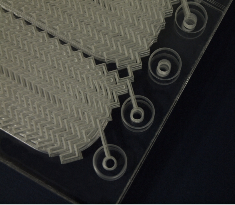 Glass micro reactor. Channels are powderblasted to a certain depth, connection holes are powderblasted through. Besides reaction channels heating channels are integrated.